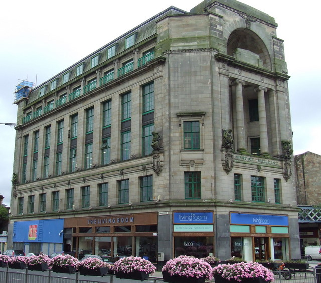 Mercat Building At Glasgow Cross.